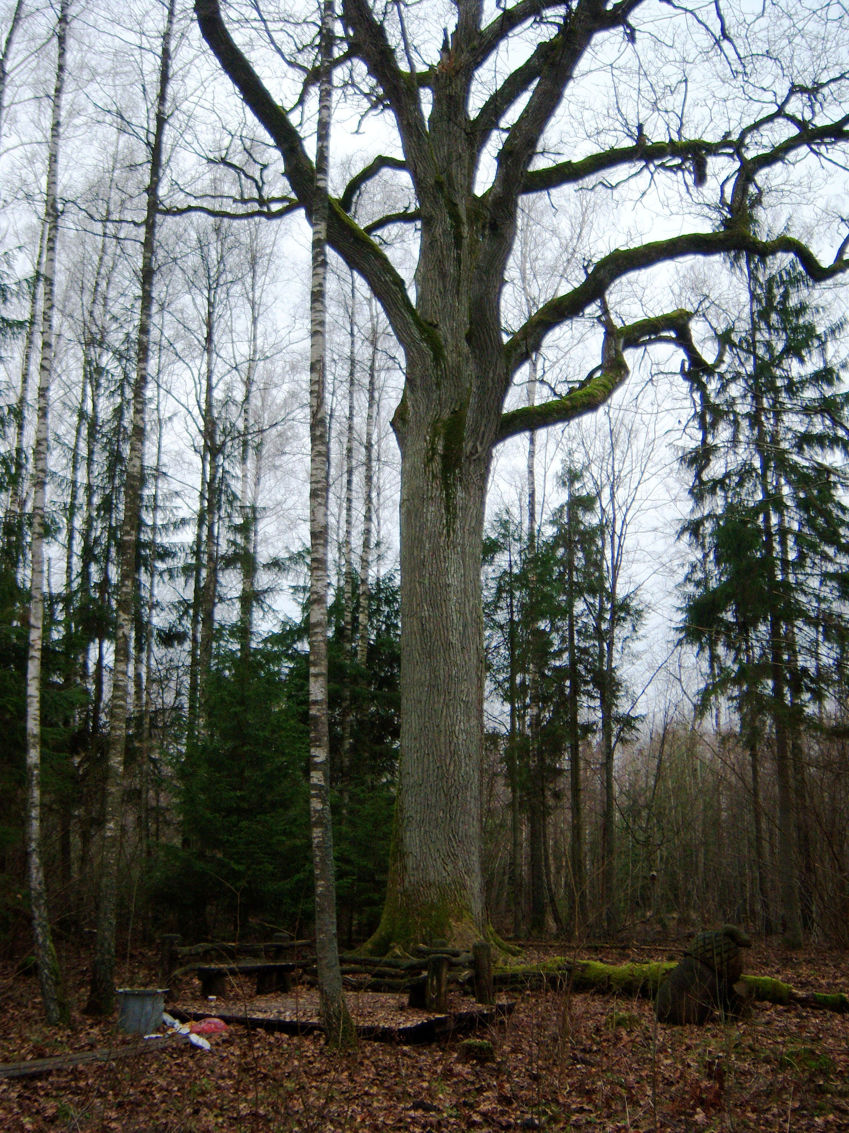 Oak the Beatiful near Plauginė, Raseiniai District, Lithuania